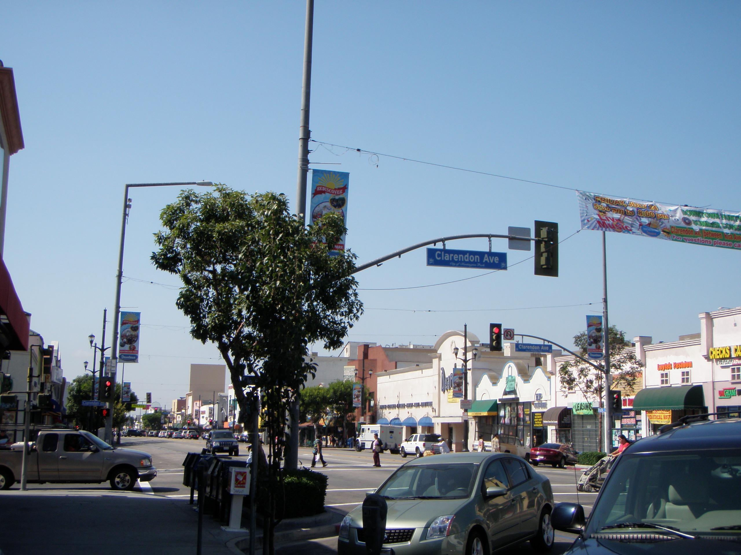 This is a photograph of the intersection of Pacific Boulevard and Clarendon Avenue in Huntington Park, California on a Saturday morning in August of 2009.